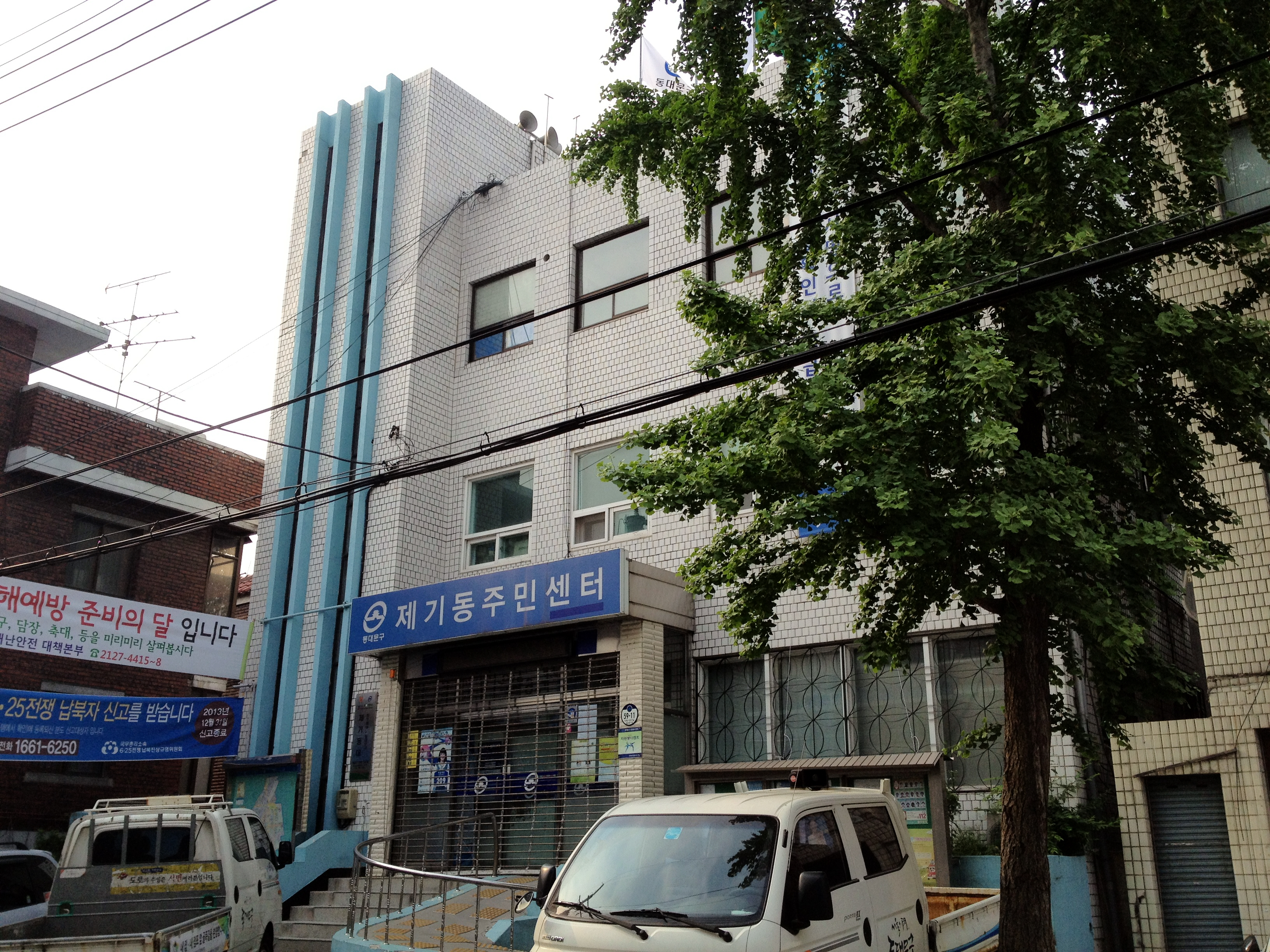 Jegi-dong Comunity Service Center(Dongdaemun-gu)